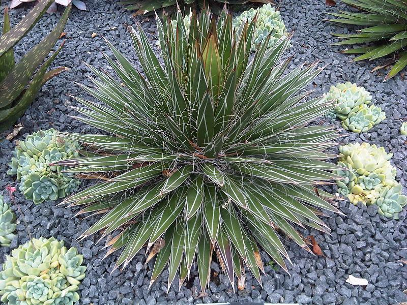 Agave filifera in Kew Gardens, London, England.